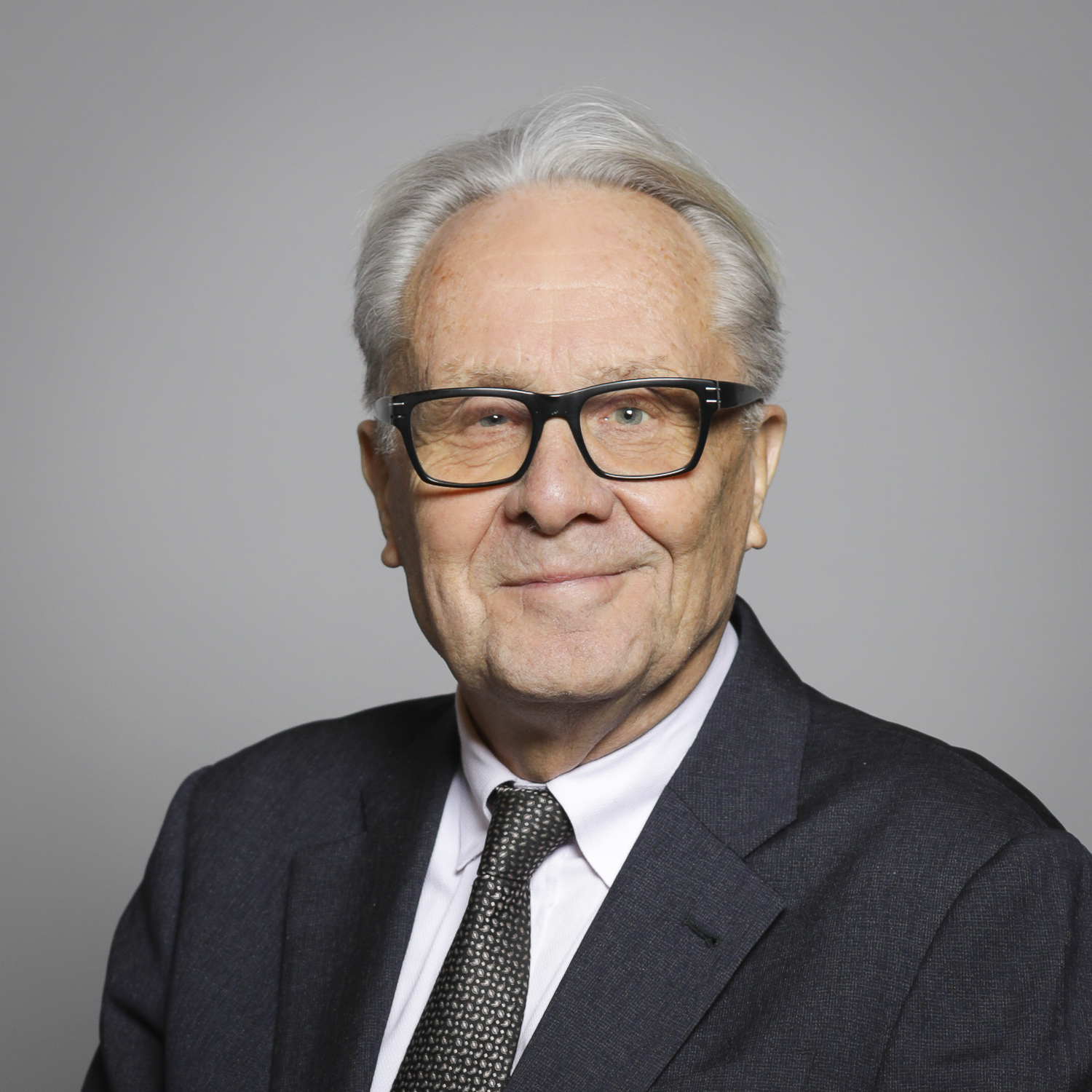 Official portrait of Lord Carter of Coles 1×1 portrait of Lord Carter of Coles